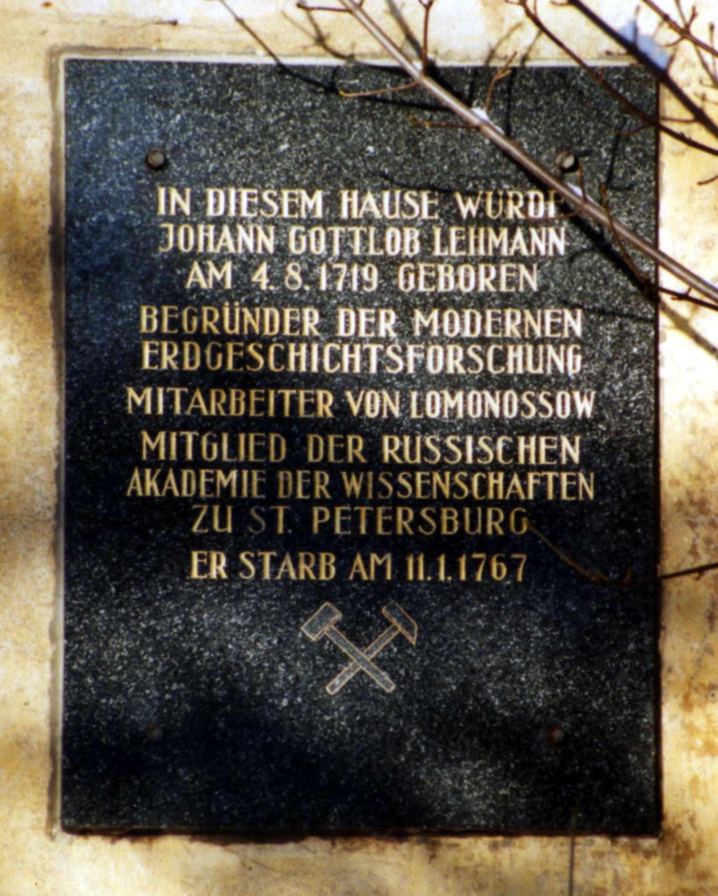 This image shows the memorial plaque of Johann Gottlob Lehmann on his birthplace in Langenhennersdorf in Saxony, Germany.